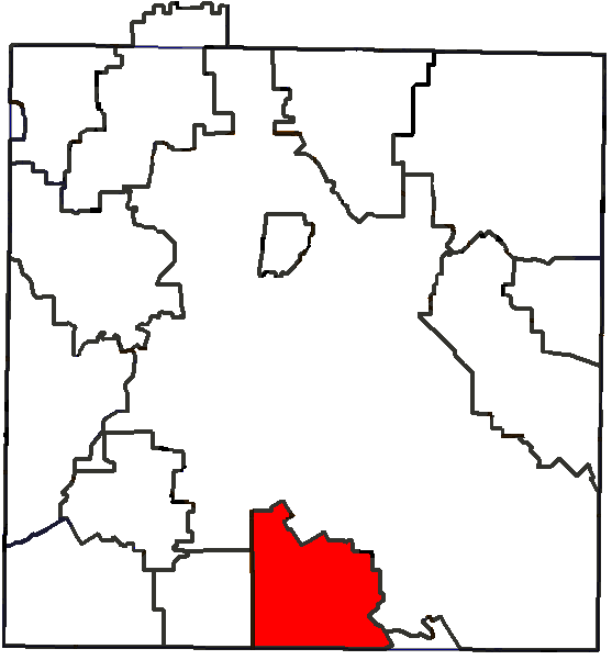 Map of Dallas County highlighting the Lancaster Independent School District; created with the GIMP. Made by User:Acntx.